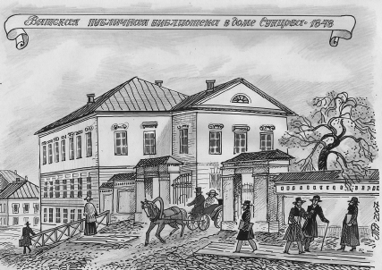 Hercen Library in 1848 year.